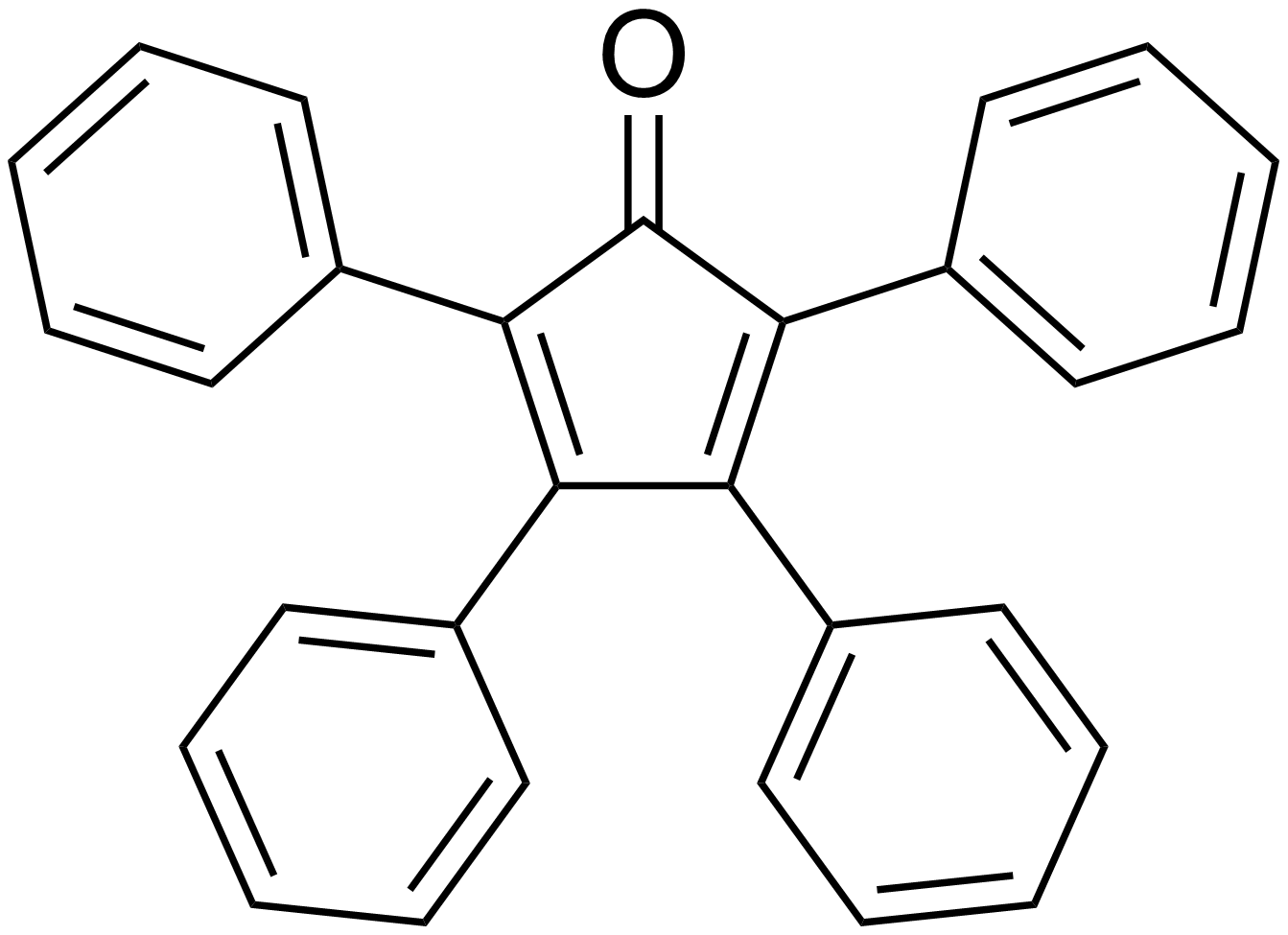 chemical structure of tetraphenylcyclopentadienone